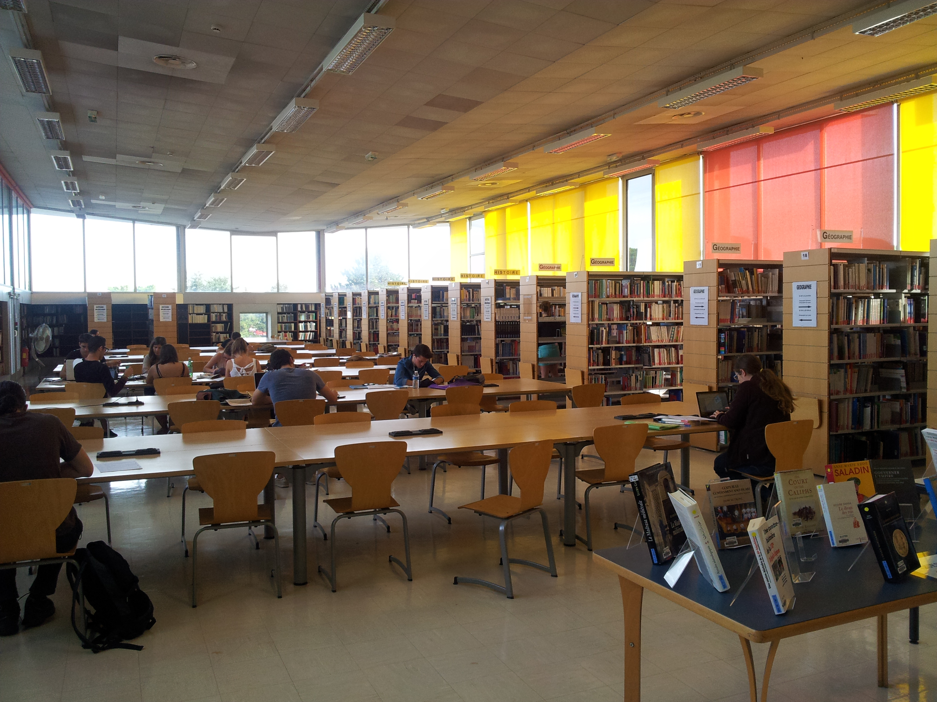 University library of Michel de Montaigne University Bordeaux 3.